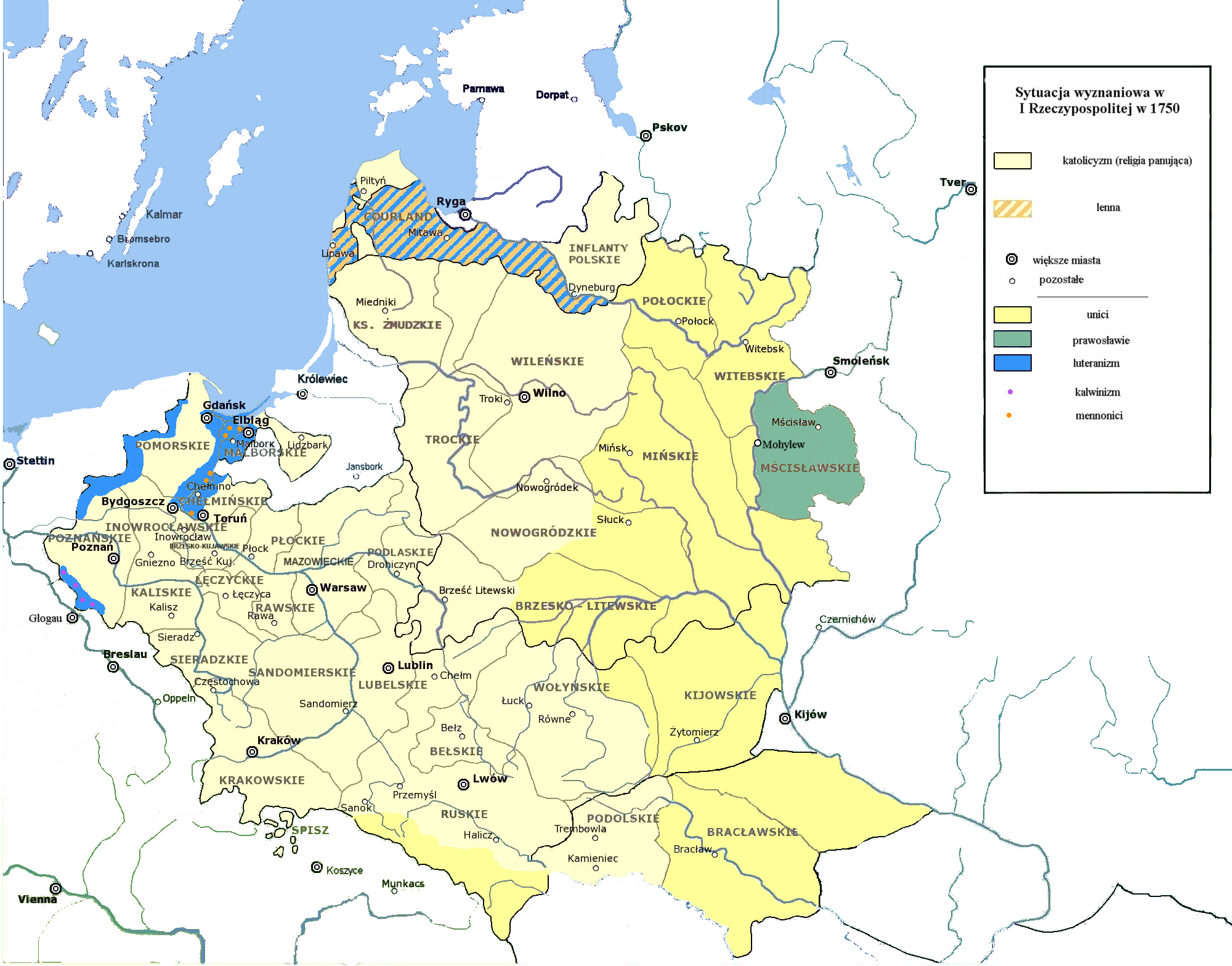 Religions in Poland in 1750